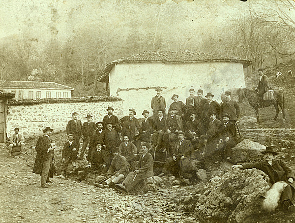 Kyustendil Macedonian-Adrianopolitan Organisation 1901